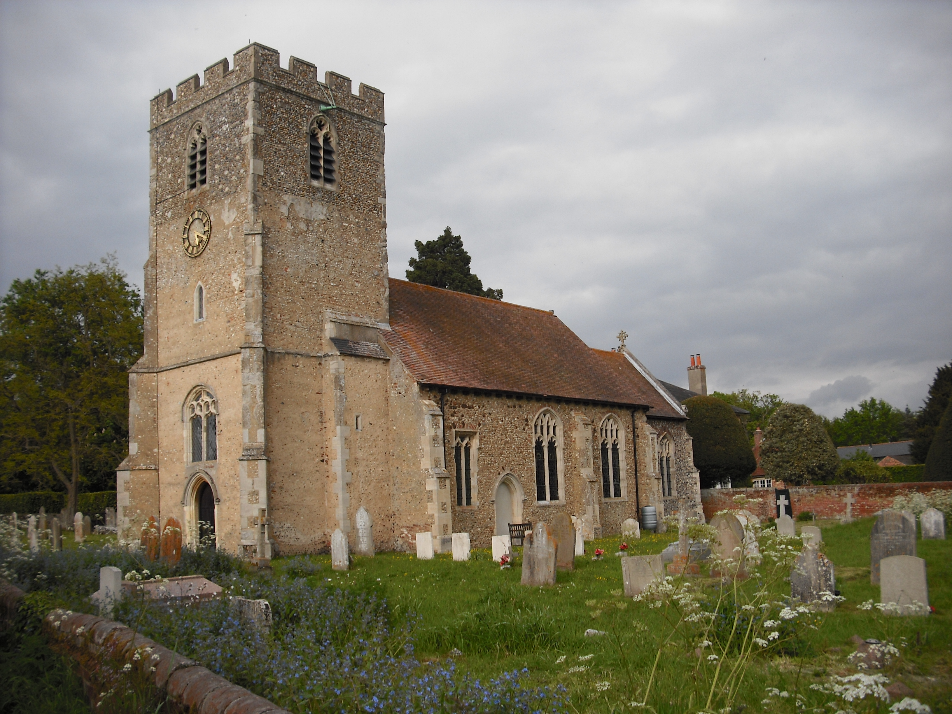 St Mary’s parish church, Higham, Suffolk, seen from the southwest